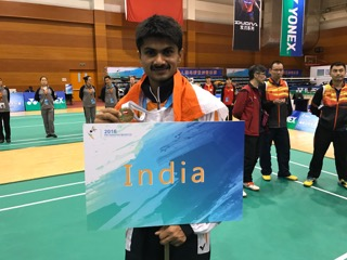 Suhas L Y